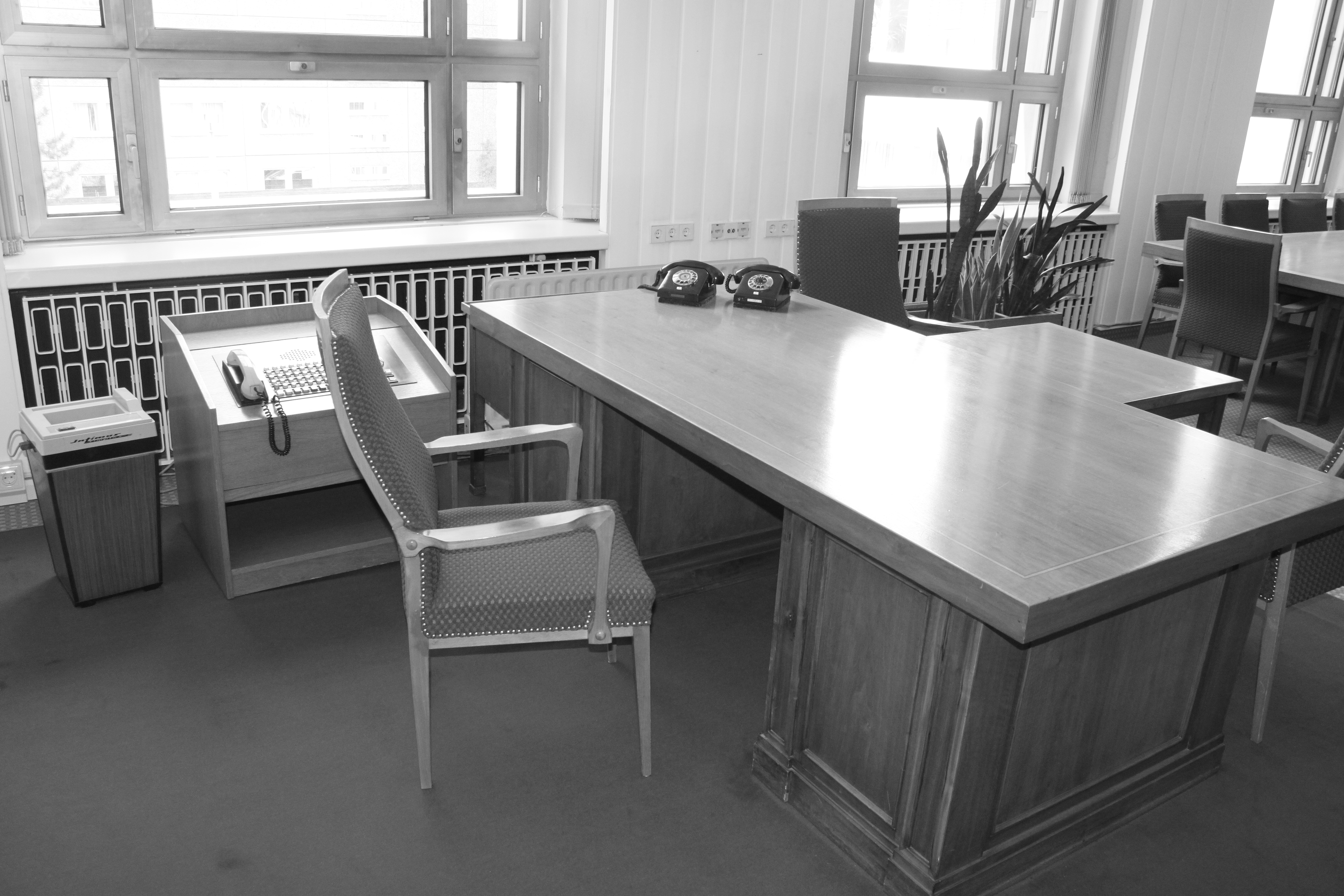 Erich Mielke's desktop